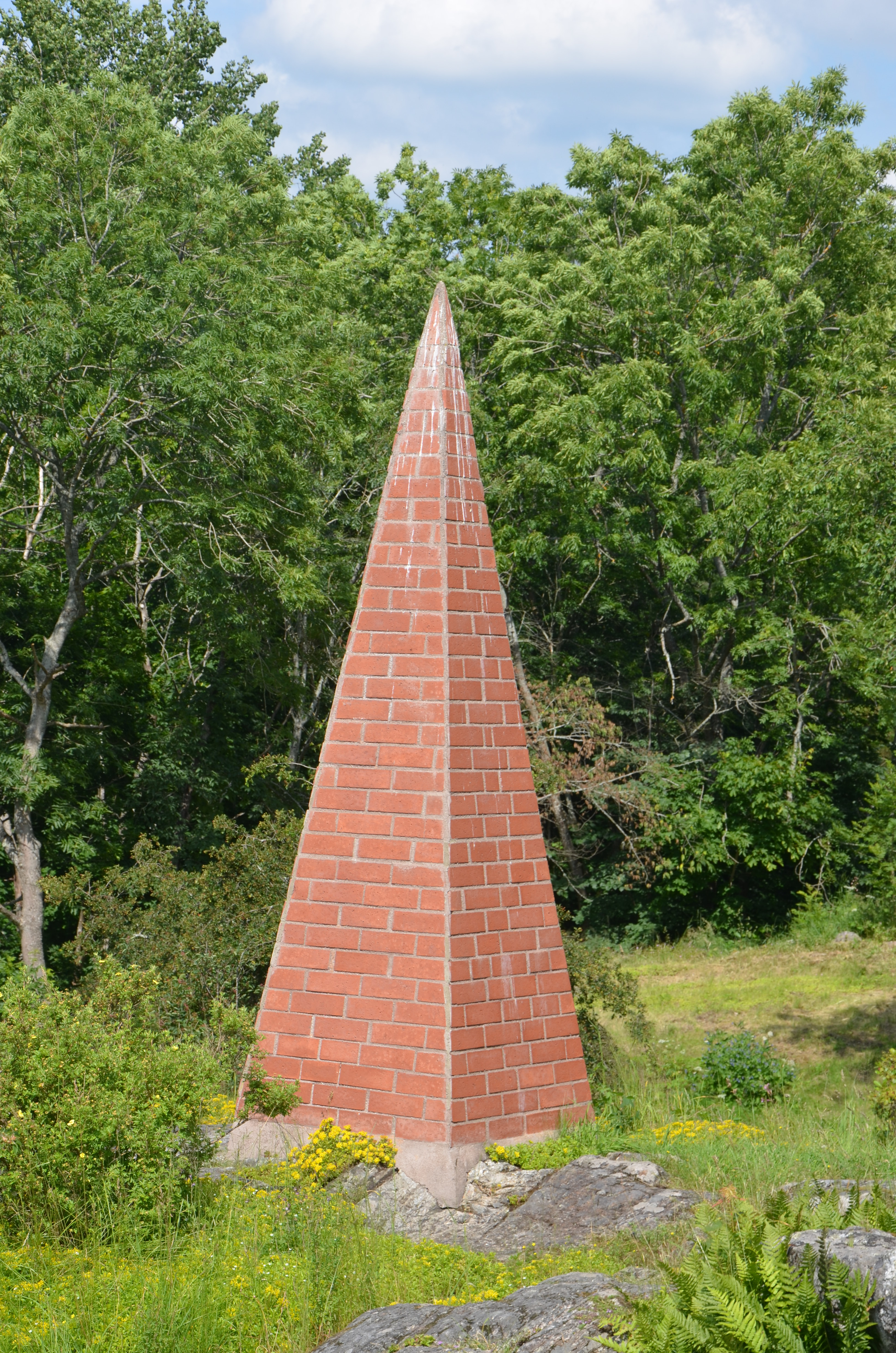 Sten Dunérs Monolit, 1998, tegel, Görvälns slotts skulpturpark